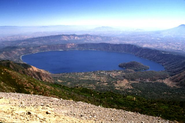 7 x 10 km Coatepeque caldera in El Salvador visit from the summit of Santa Ana volcano.